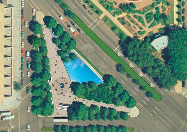 Initial design proposal for the American Veterans Disabled for Life Memorial in Washington, D.C., in the United States. This was submitted to the United States Commission of Fine Arts in March 2004, but significant changes were made before it was finally approved in 2009.